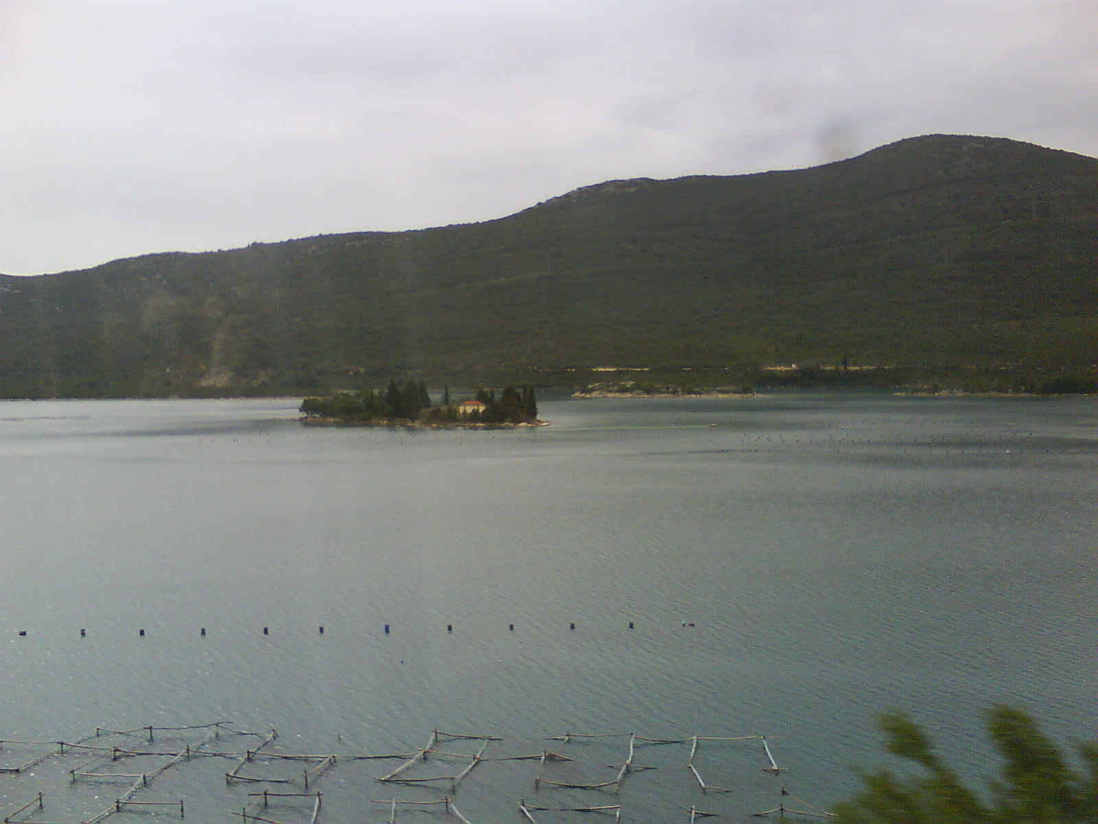 Channel of Mali Ston, island of Crkvica